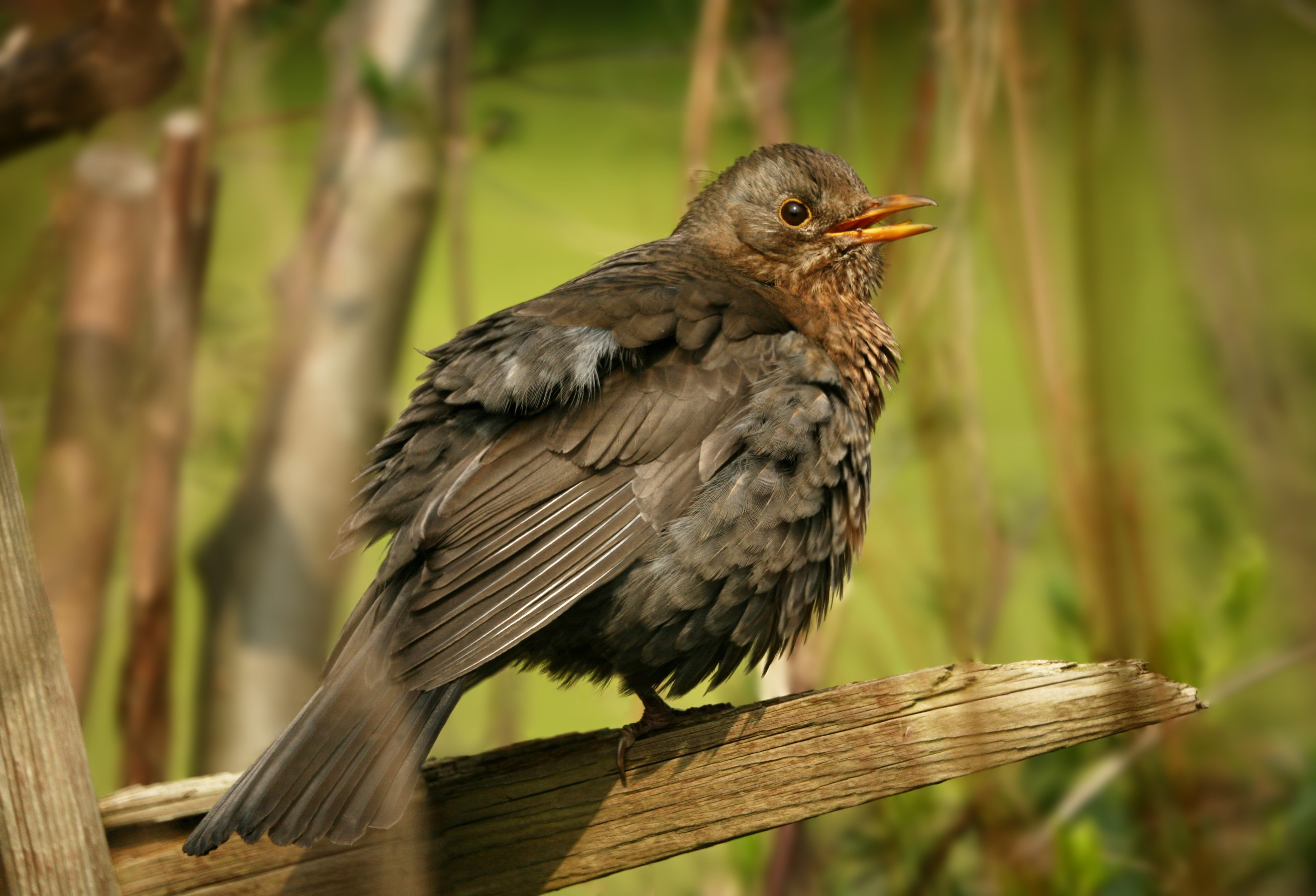 Blackbird female